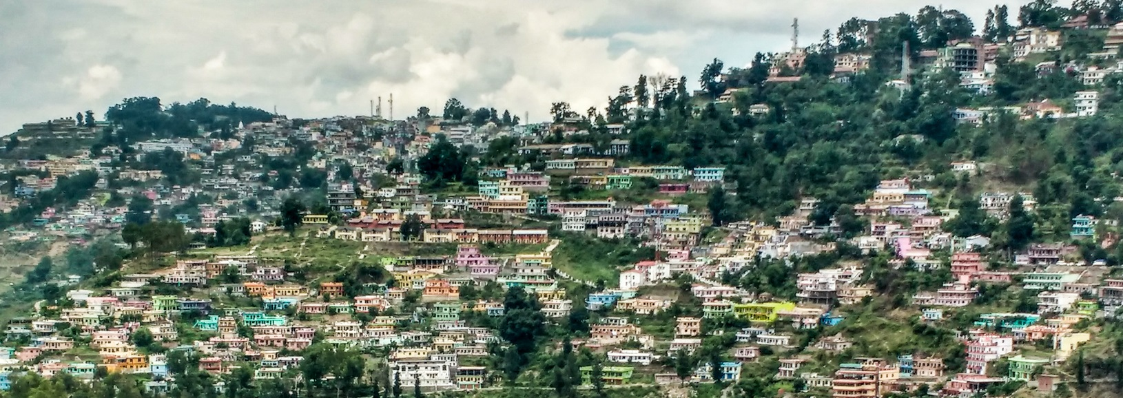 Cropped version of the file File:Almora IMG 20160619 113441256 HDR (33029071745) (2).jpg